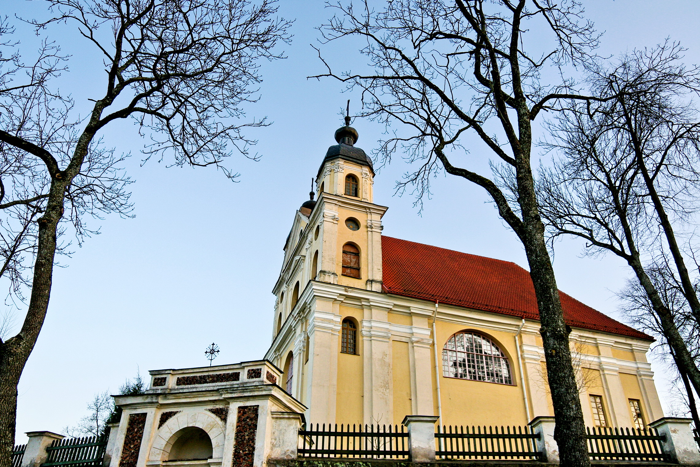 Trinapolis church